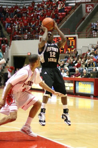 Personal shot taken during my days at WMU in 2008